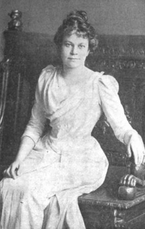 A white woman, seated in an ornate wooden chair. She is wearing a white corsetted gown. Her hair is arranged in an updo.